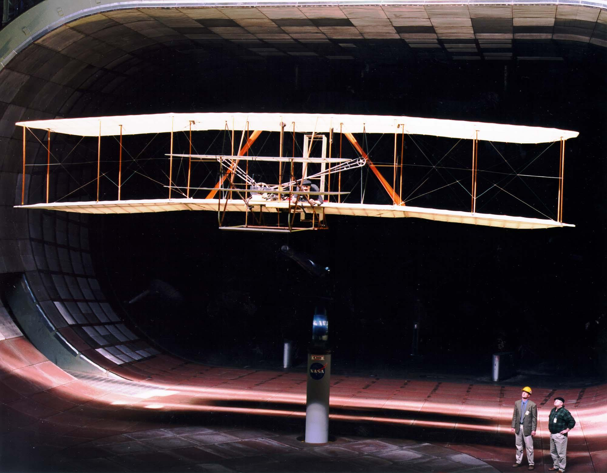 A full-scale replica of the 1903 Wright Flyer mounted in NASA Ames Research Center's 40-foot by 80-foot wind tunnel for tests to build a historically accurate aerodynamic database of the Flyer.